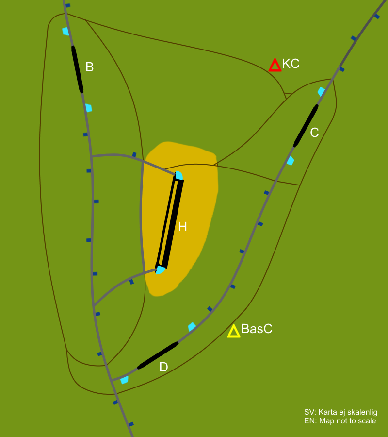 Layout for a Bas 90 air base, Swedish Air Force